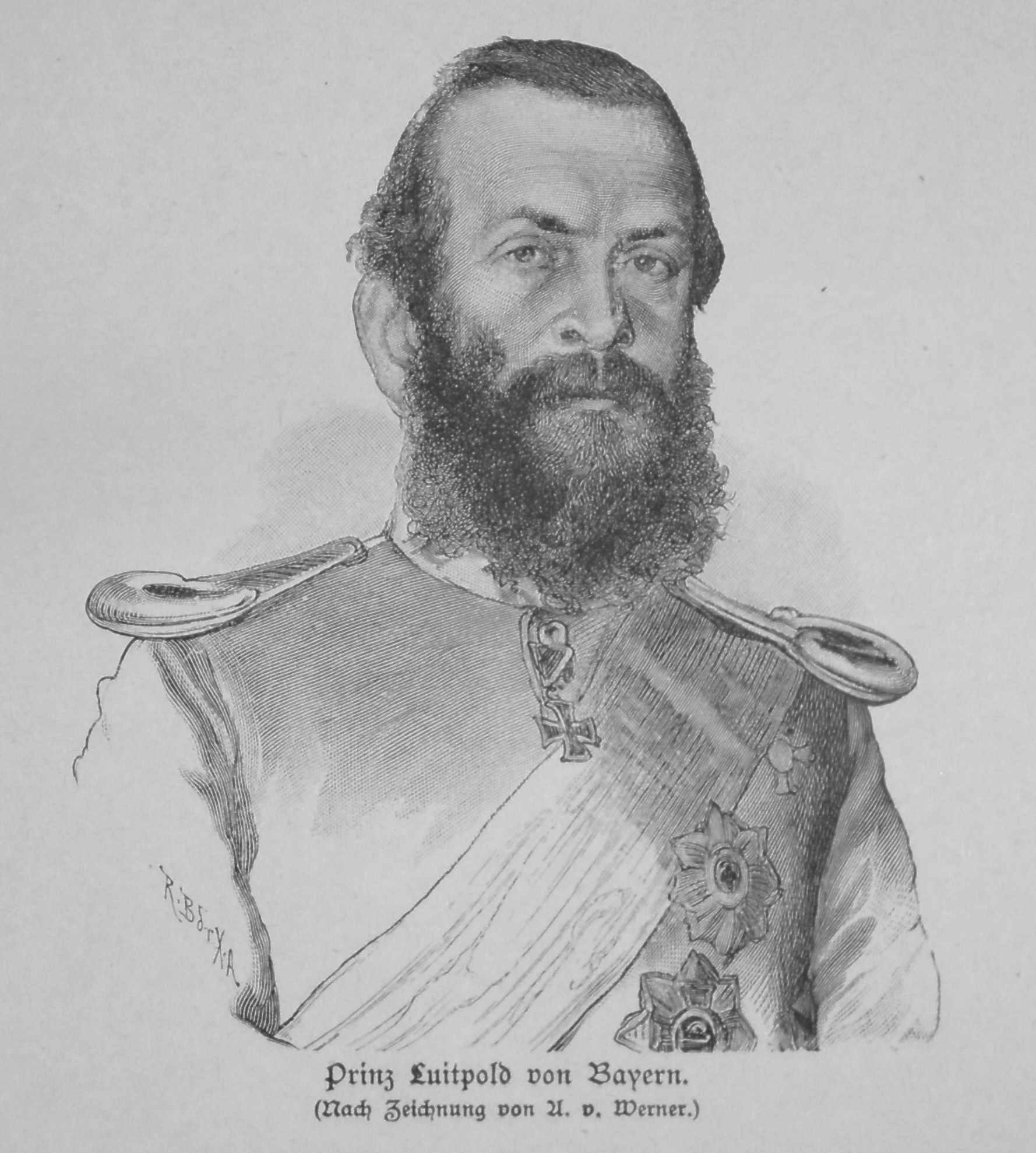 prince Luitpold von Bayern